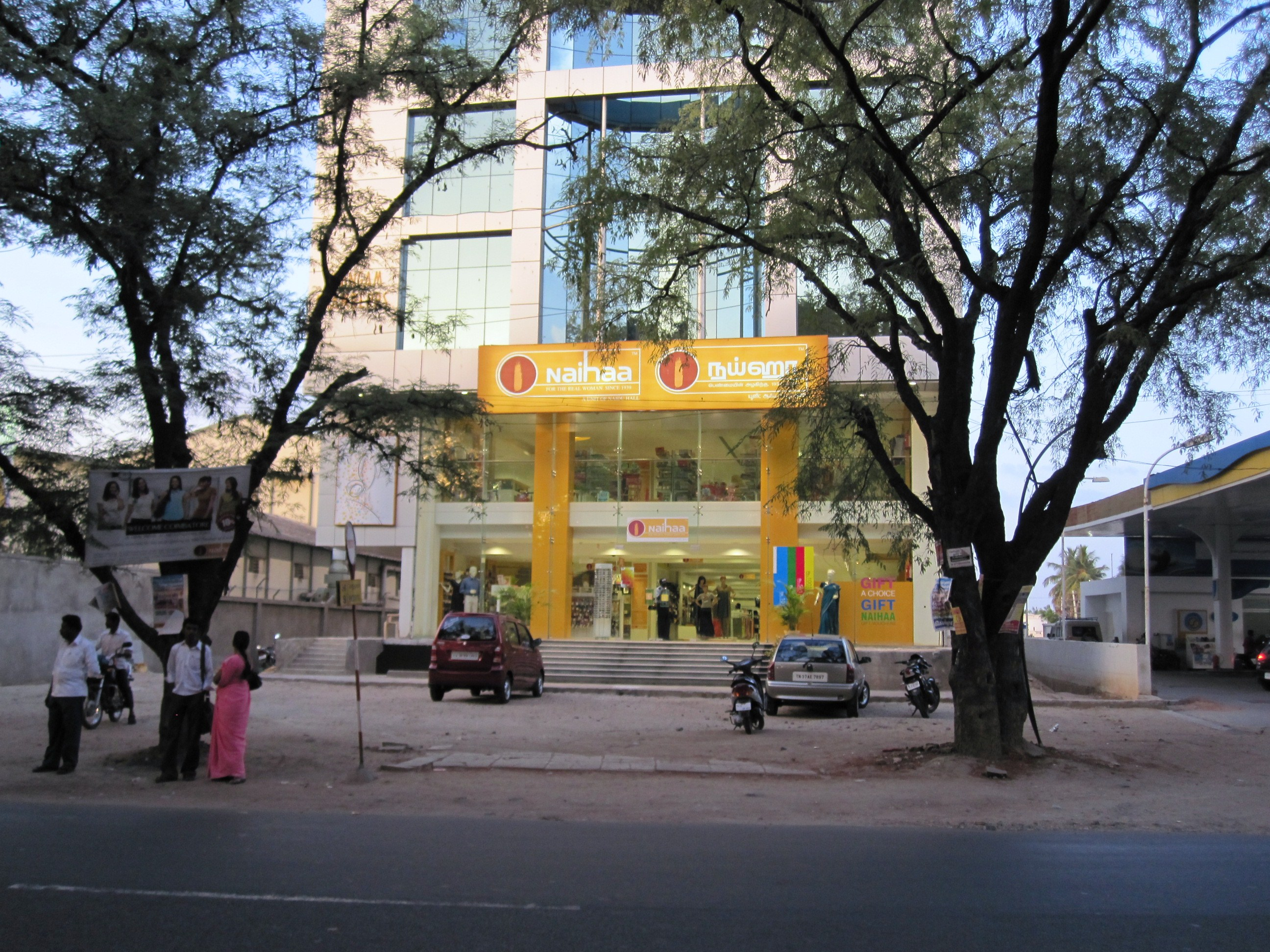 Frontview of a Naihaa (Naidu Hall) store in Mettupalayam Road Coimbatore, Tamil Nadu. (Thangam Chambers Building, Cheran Nagar)